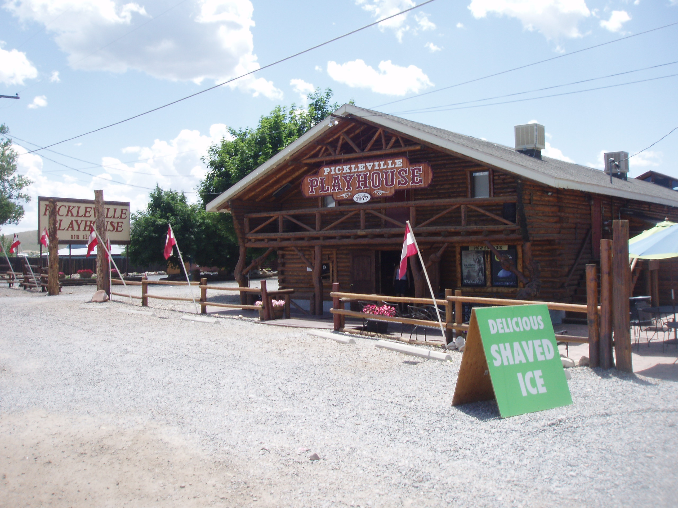 The Pickleville Playhouse, a theater in Garden City, Utah, United States, is named for the former town of Pickleville.